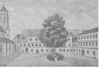 Image of the castle (former convent) of Amandenhof near Urach which was seat of the South Slavic Bible Society